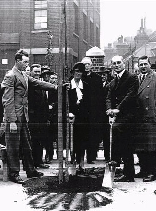 Ada Salter opens a playground by planting a tree